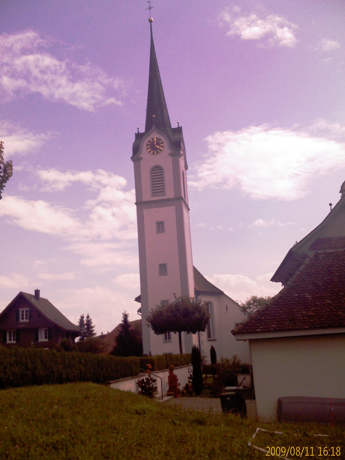 Church of Abtwil, canton of Aargau, SwitzerlandEsperanto: Preĝejo de Abtwil, Kantono Argovio, Svislando